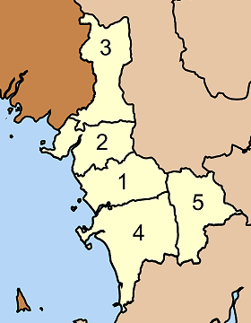 Map of Sikao district, Trang province, Thailand, with the communes (tambon) numbered. Bo Hin (บ่อหิน) Khao Mai Kaeo (เขาไม้แก้ว) Ka La Se (กะลาเส) Mai Fat (ไม้ฝาด) Namueang Phet (นาเมืองเพชร)